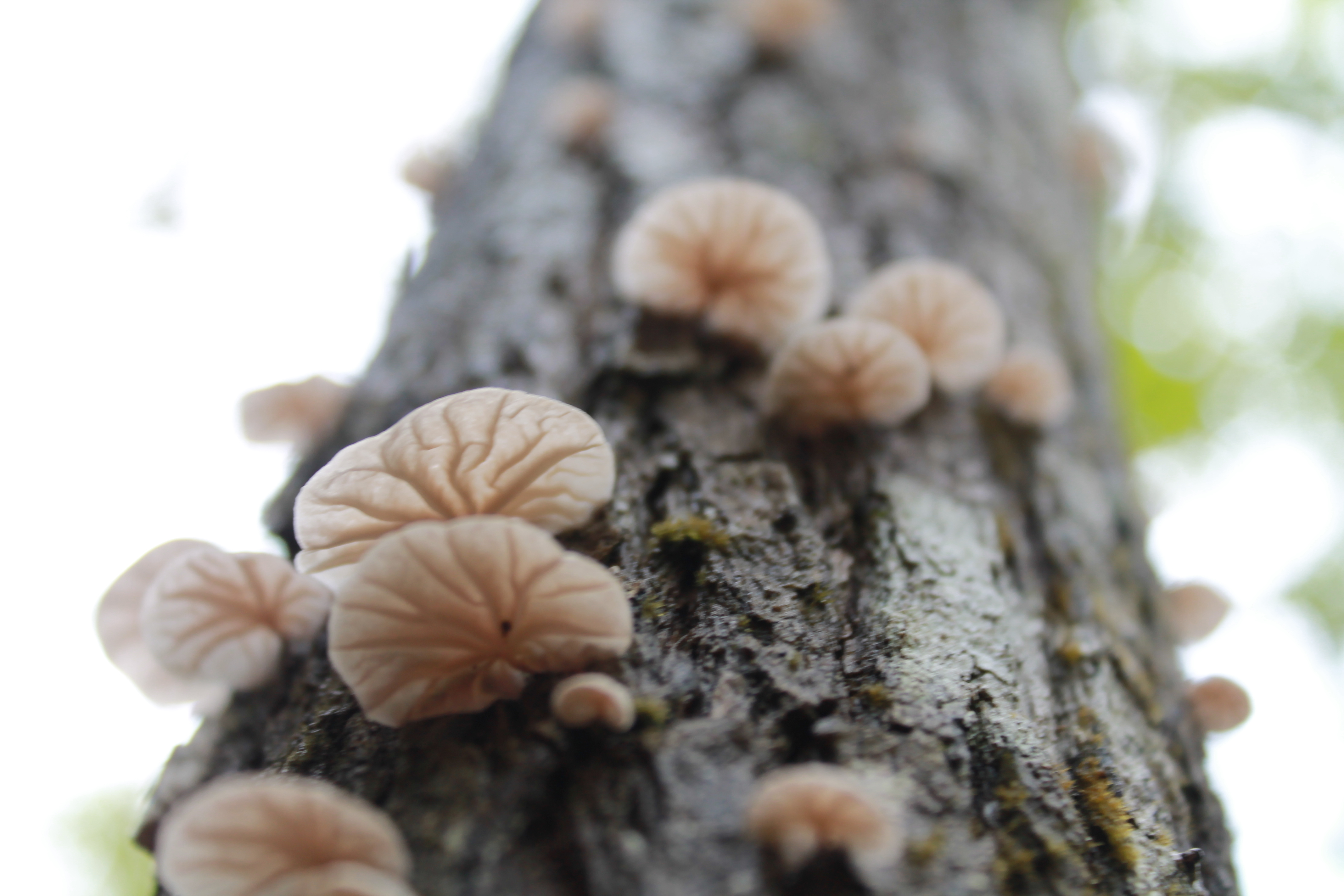 Mushroom in tree in contrapicado plane.